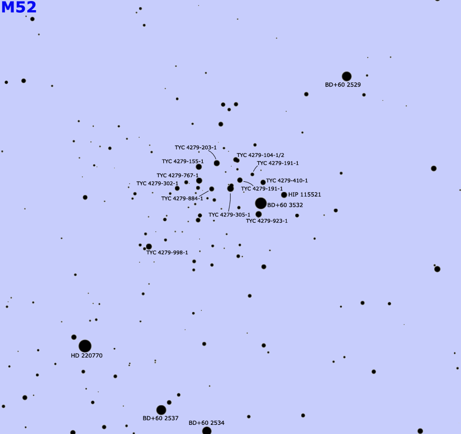 Detailed map of Messier 52